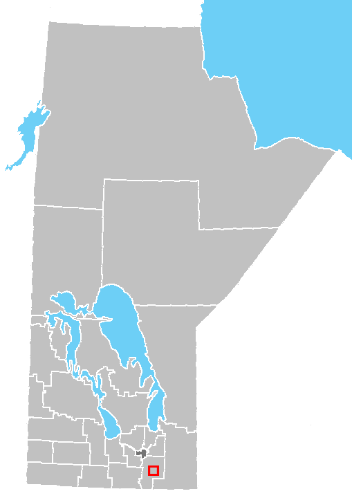 Location of Steinbach, Manitoba